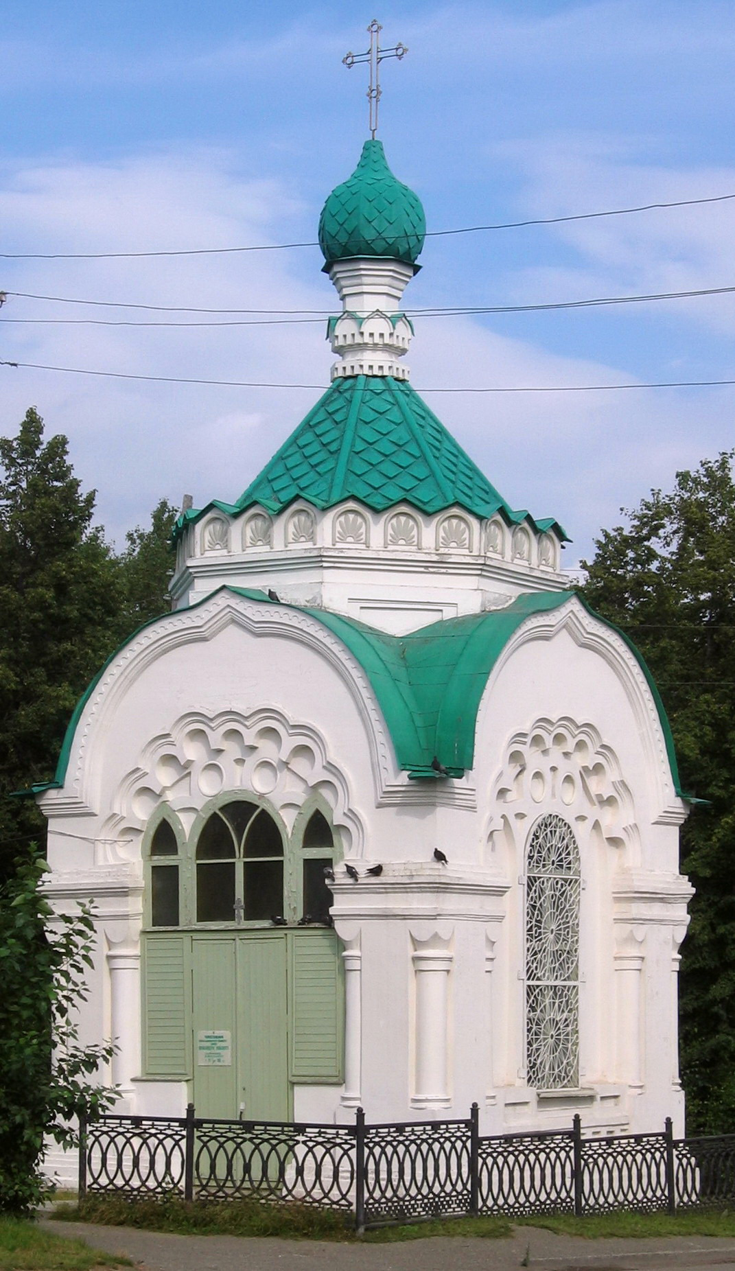 Chapel of Alexander Nevskiy. XIX century. Krasnoturyinsk, Russia.